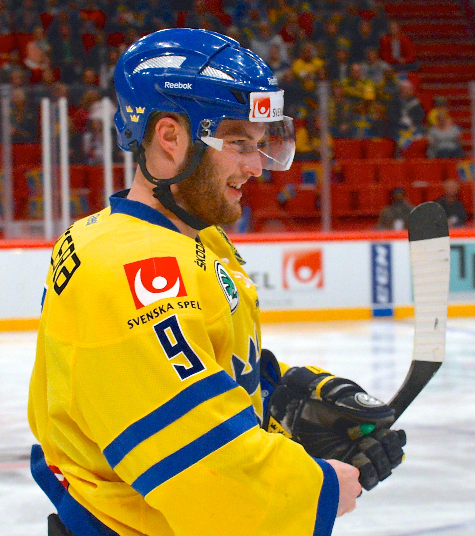 Niclas Andersén during Oddset Hockey Games against Russia (2-0) at the Ericsson Globe in Stockholm on May 4th, 2014.